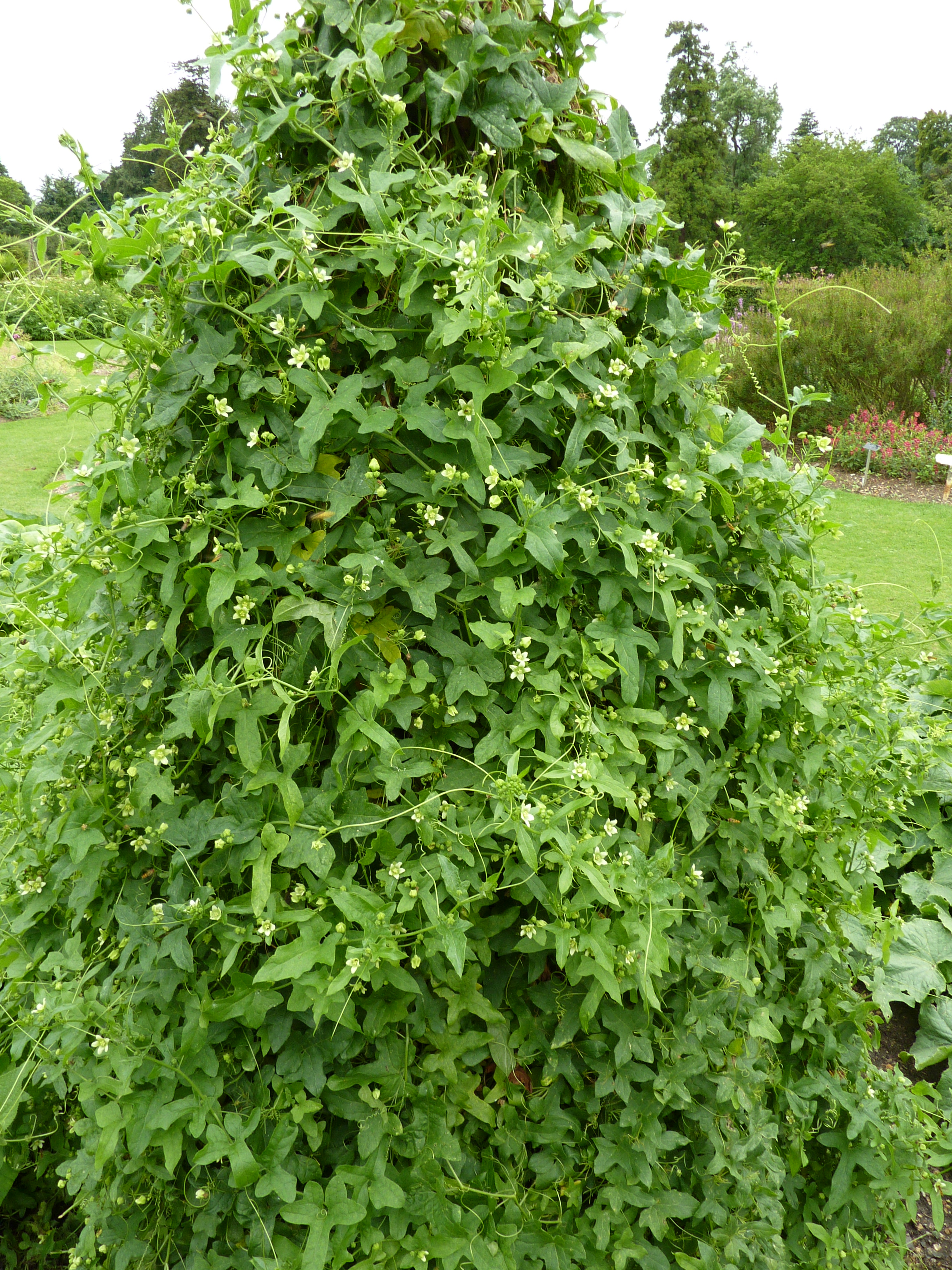 Bryonia dioica, Cambridge University Botanic Garden